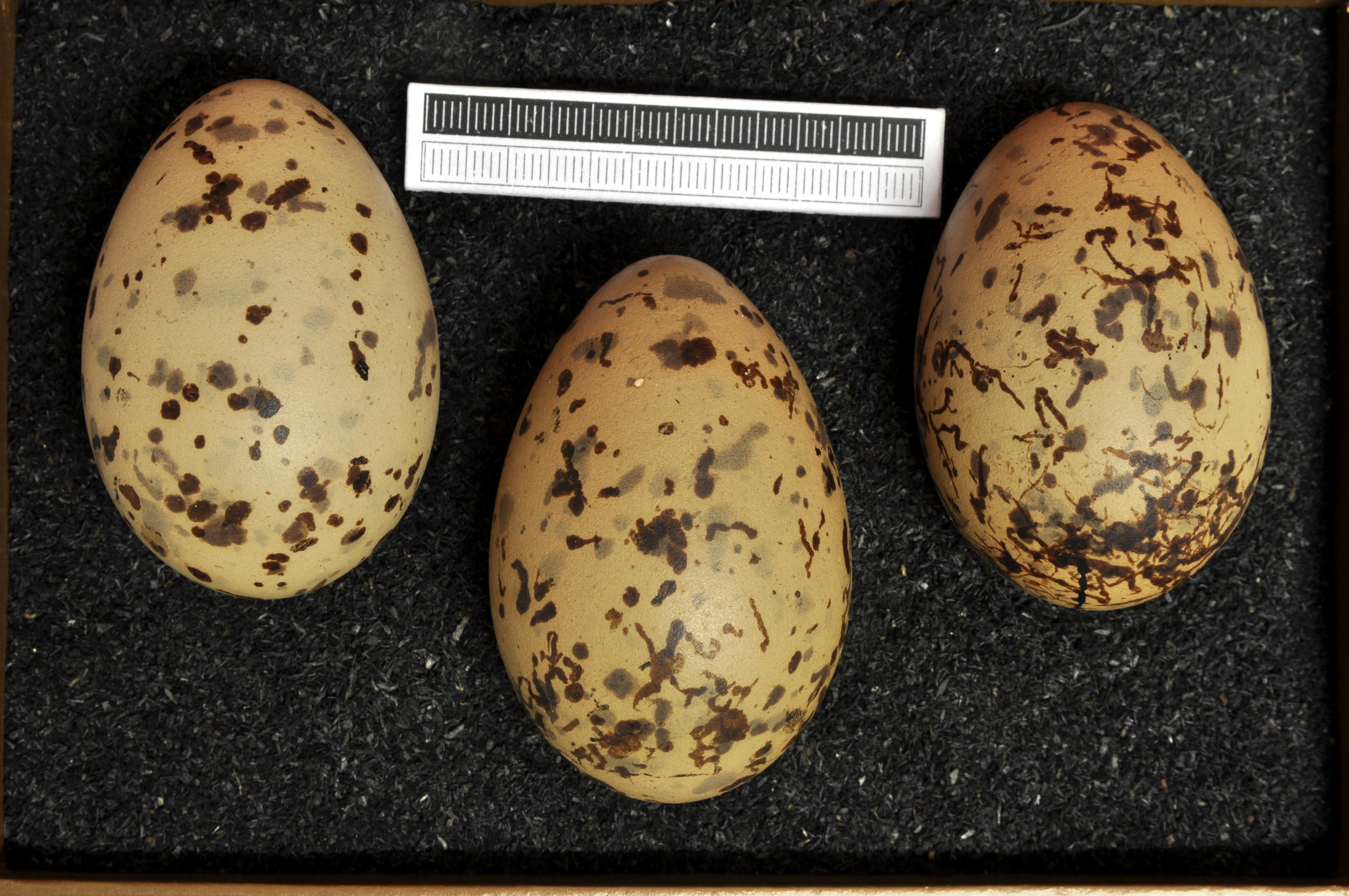 Common gull Larus canus , egg, Coll. Museum Wiesbaden